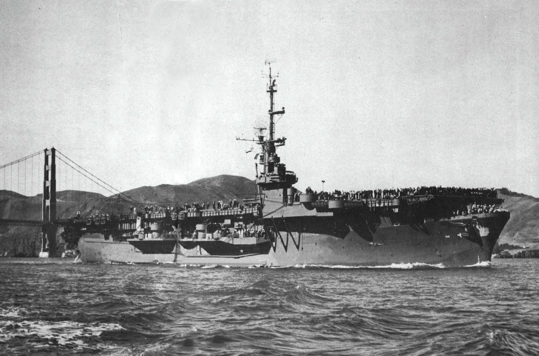 The U.S. Navy escort carrier USS Commencement Bay (CVE-105) enters San Francisco Bay (USA), circa in 1945.